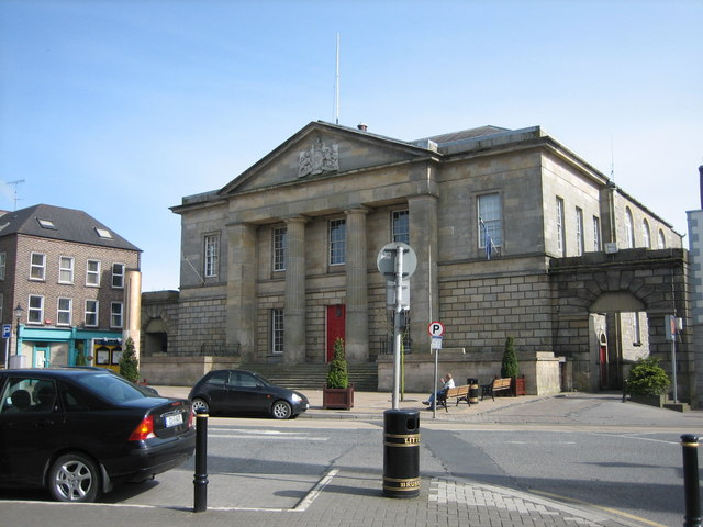 Monaghan Court House.